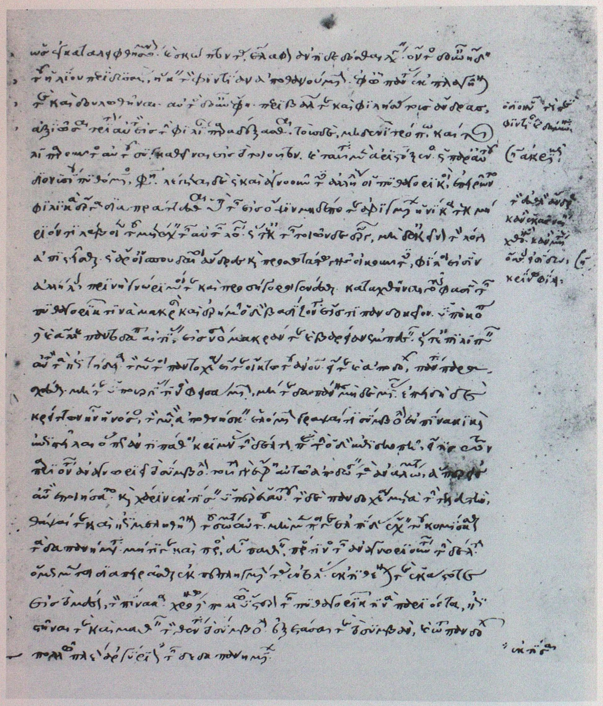 A page of a manuscript of the „De vita Pythagorica“: Florence, Biblioteca Medicea Laurenziana, Plut. 86.3, fol. 41r.